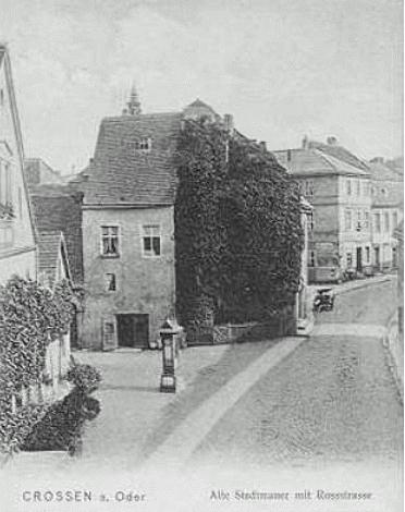 Crossen (Oder) about 1900